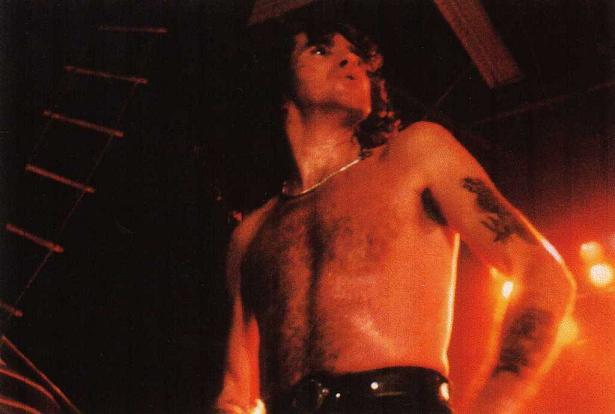 Bon Scott in Grenoble, December 10 1979.